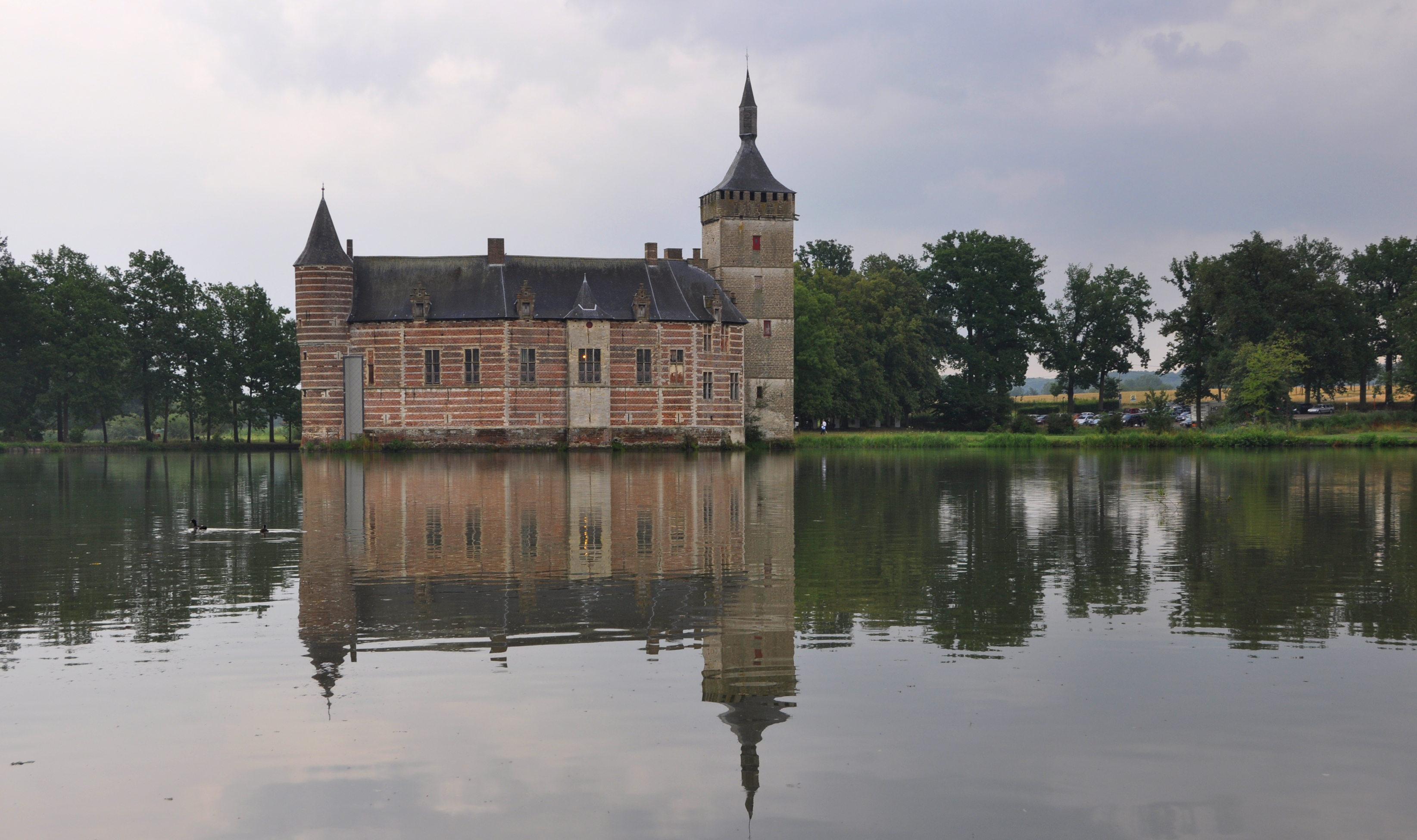 Sint-Pieters-Rode (municipality of Holsbeek, Belgium): Horst castle